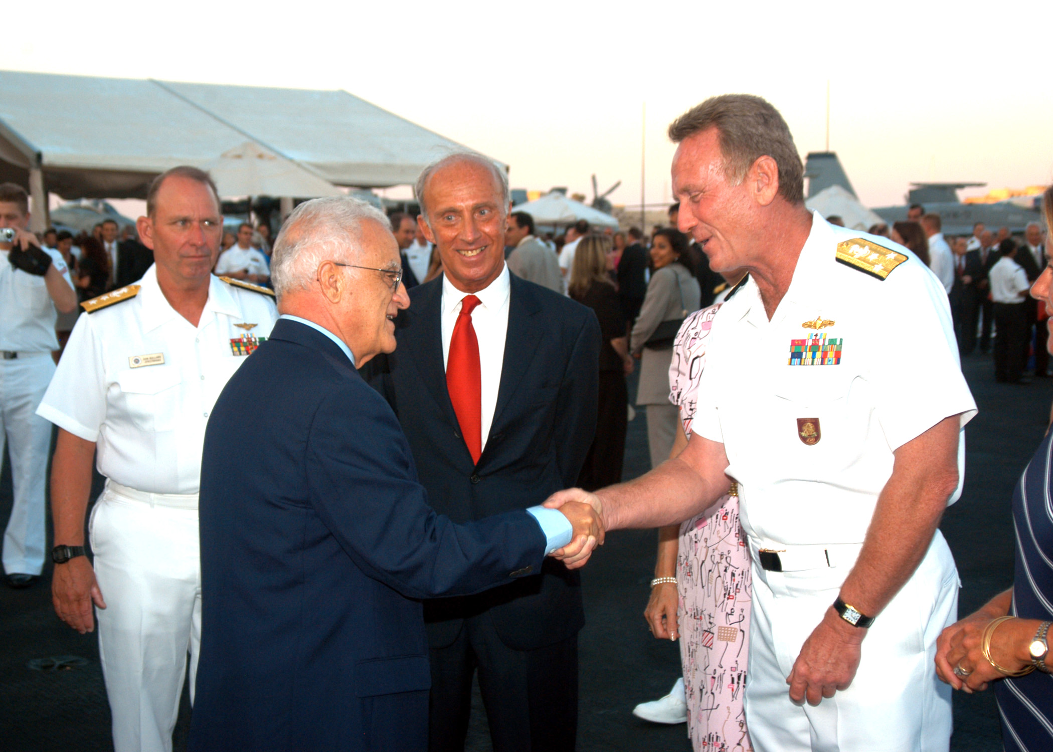 Grand Harbor, Malta (June 28, 2004) – Commander Six Fleet, Vice Admiral Henry G. Ulrich III greets Maltese President, Edward Fenech-Adami aboard the conventionally powered aircraft carrier USS John F. Kennedy (CV 67) during a Sunset Parade on the ship’s flight deck. Kennedy is one of seven aircraft carriers participating in Summer Pulse 2004. Summer Pulse 2004 is the simultaneous deployment of seven aircraft carrier strike groups (CSGs), demonstrating the ability of the Navy to provide credible combat power across the globe, in five theaters with other U.S., allied, and coalition military forces. Summer Pulse is the Navy's first deployment under its new Fleet Response Plan (FRP). U.S. Navy photo by Photographer's Mate 3rd Class William Hiembuten (RELEASED) For more information go to